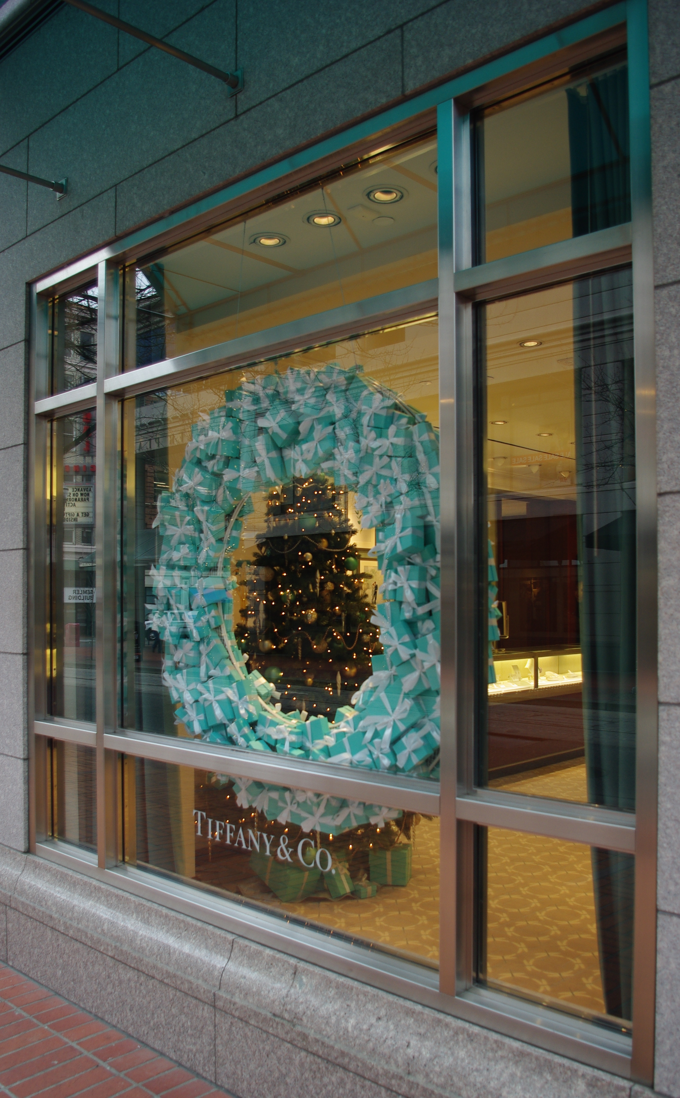 Holiday wreath made of Tiffany & Co. blue boxes at the store in Downtown Portland, Oregon.